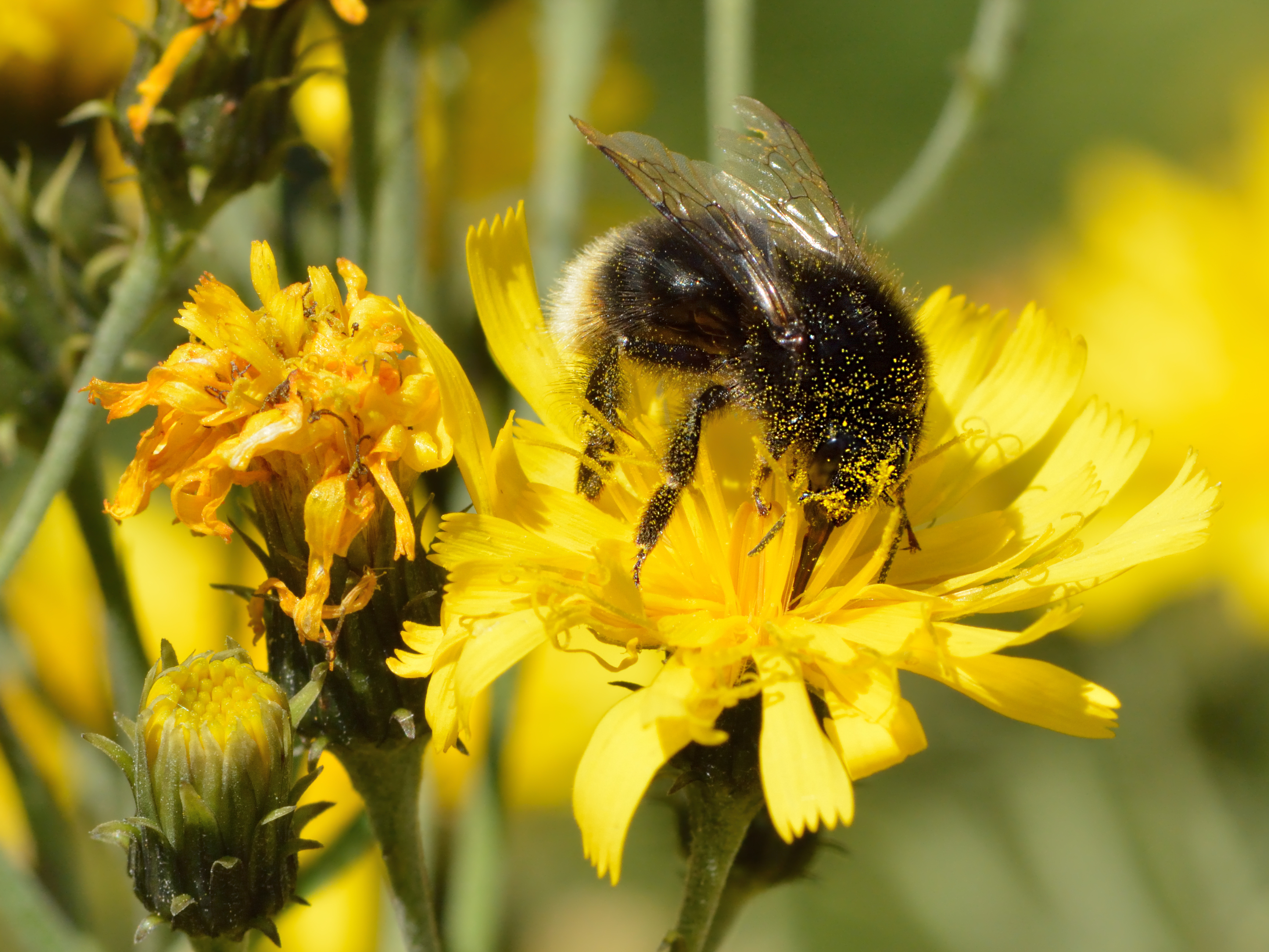 Broken-belted bumblebee (Bombus soroeensis subsp. proteus) on the narrowleaf hawksbeard (Crepis tectorum). Keila, Northwestern Estonia.